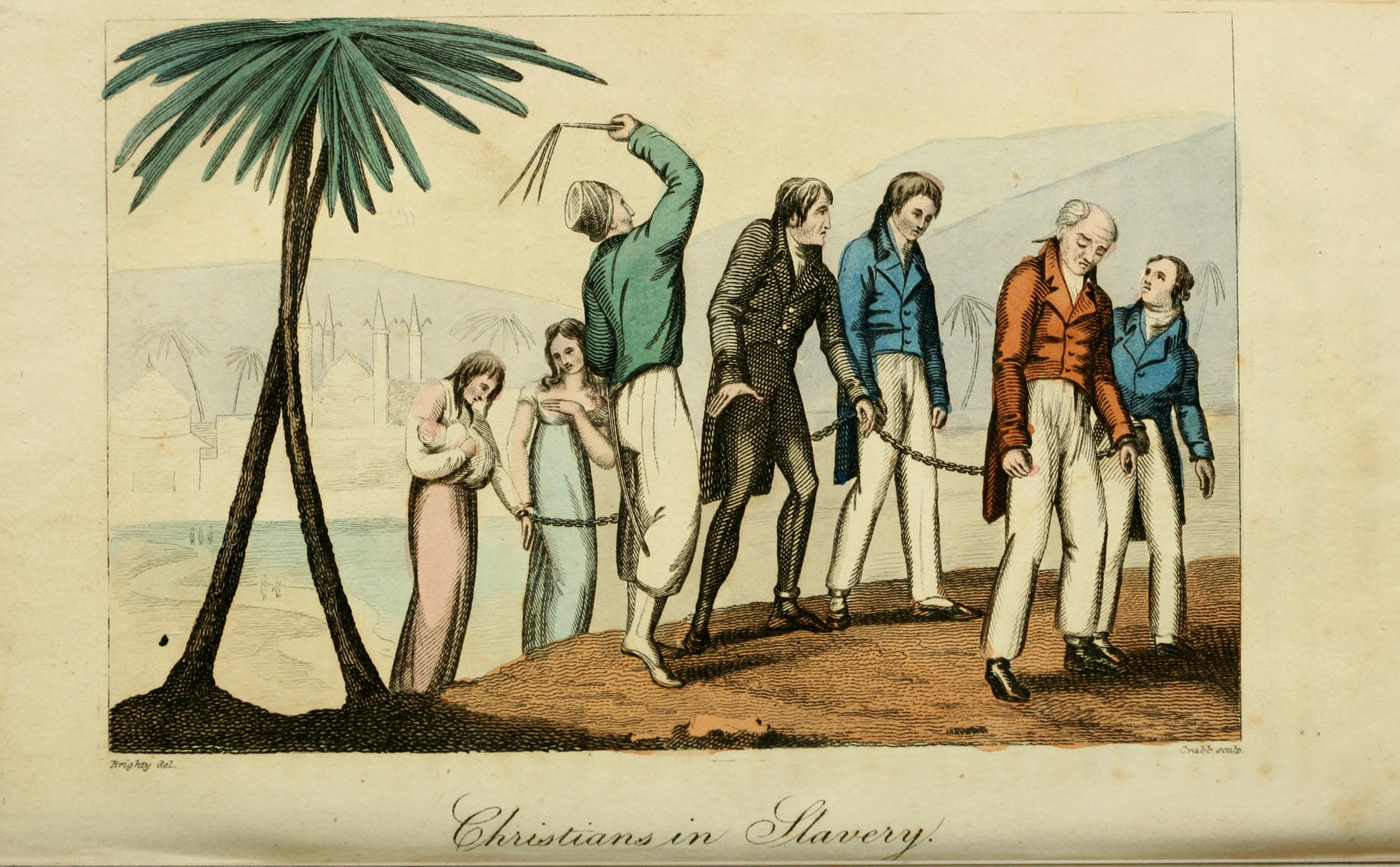 History of Algiers